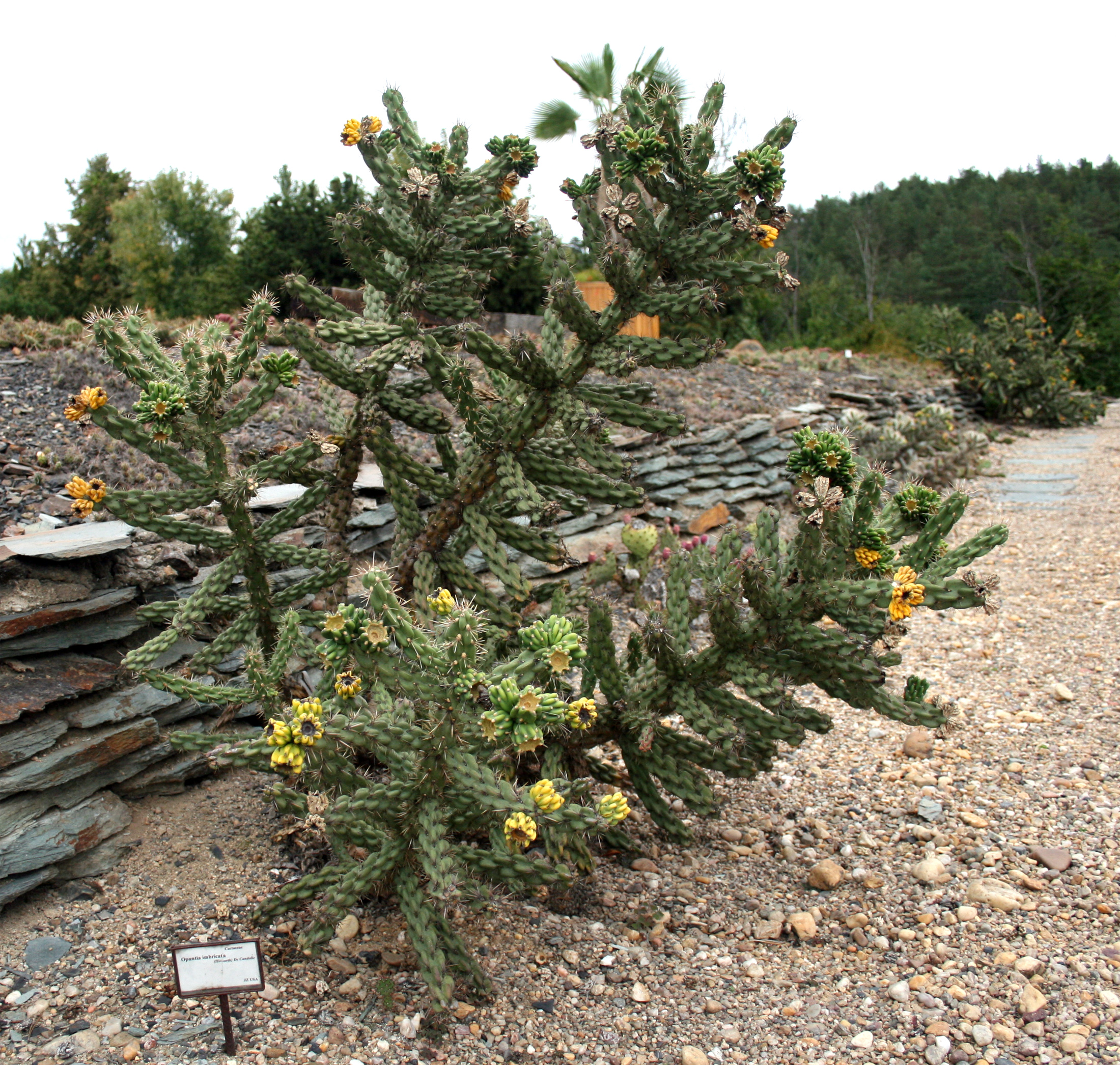 Cactus Cylindropuntia imbricata in Prague Botanic Garden, Prague, Troja